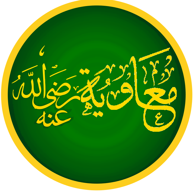 Caliph Muawiya Calligaprhy